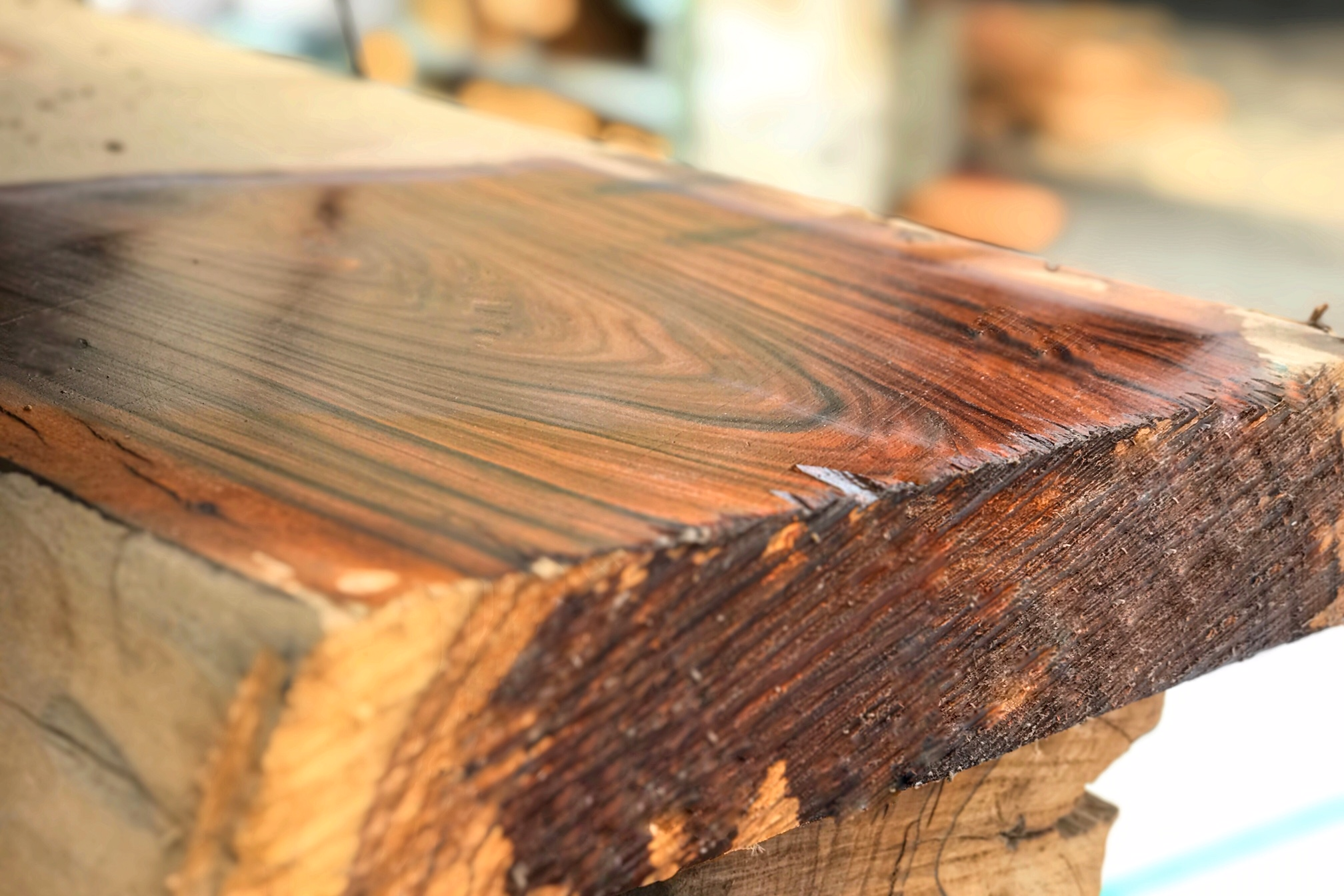 The exposed face and end-grain of a 12/4 Pau Ferro board. Sapwood is visible on the edges.